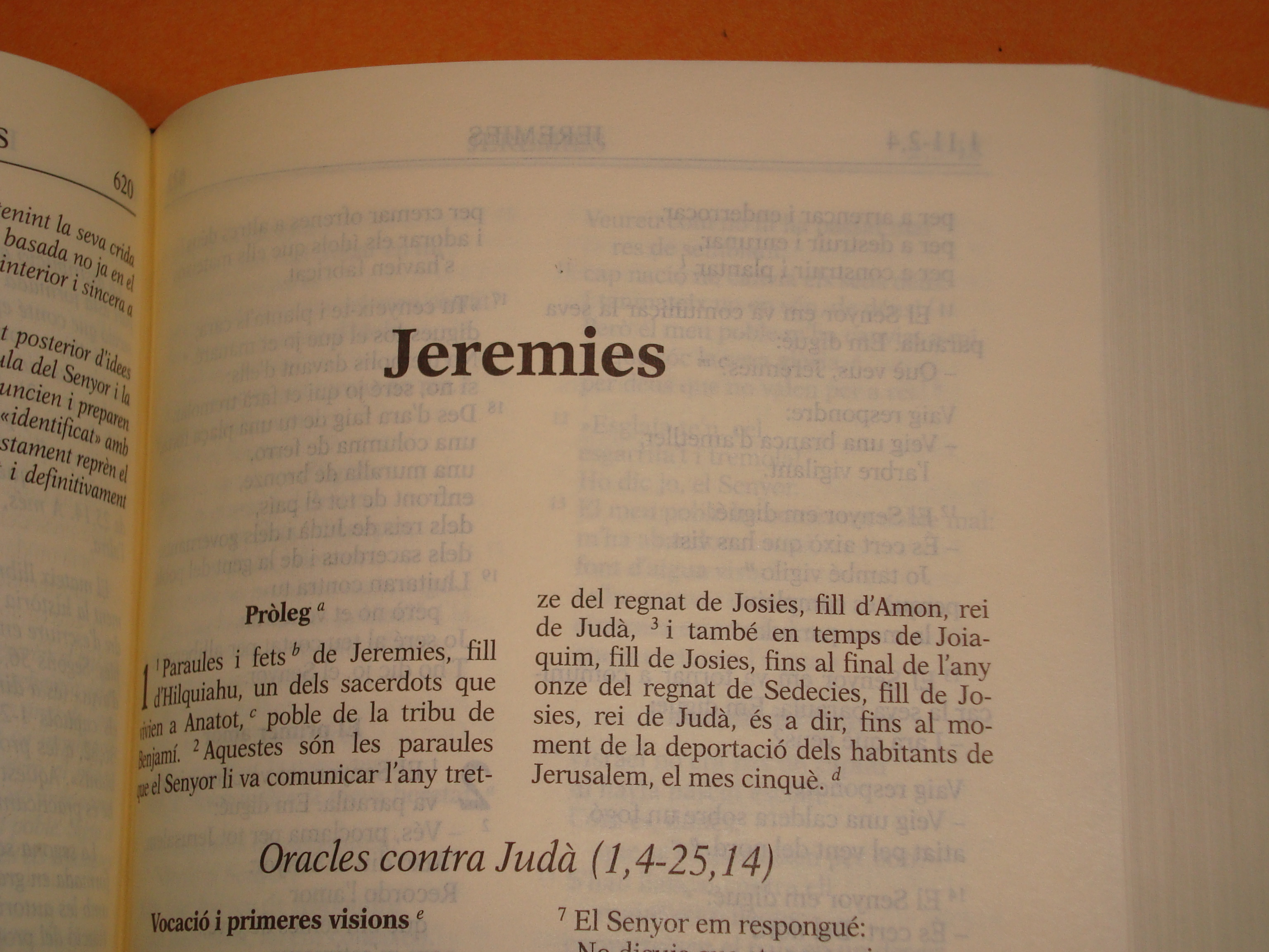 Book of Jeremiah